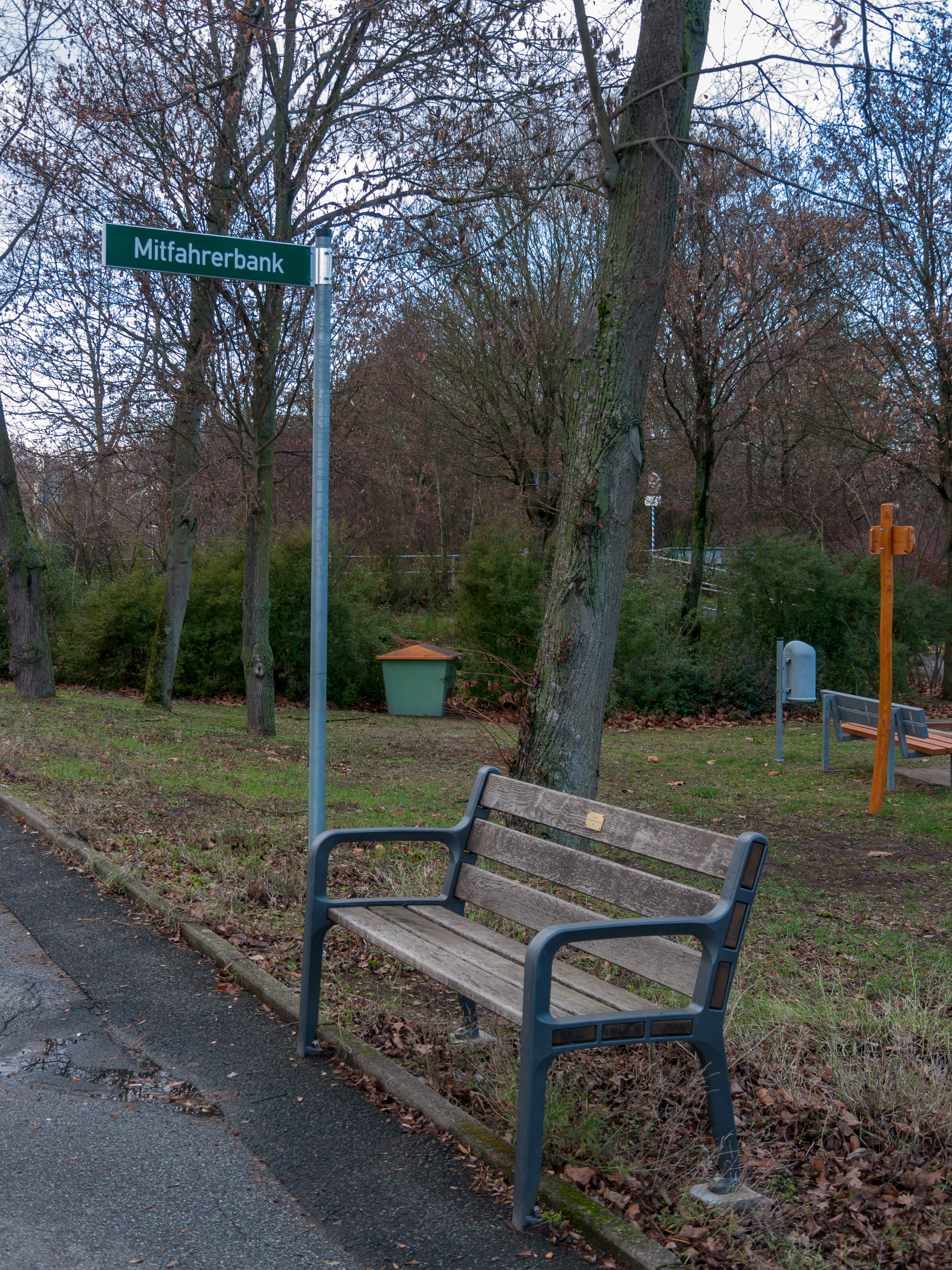 Mitfahrerbank, Bischofsheim